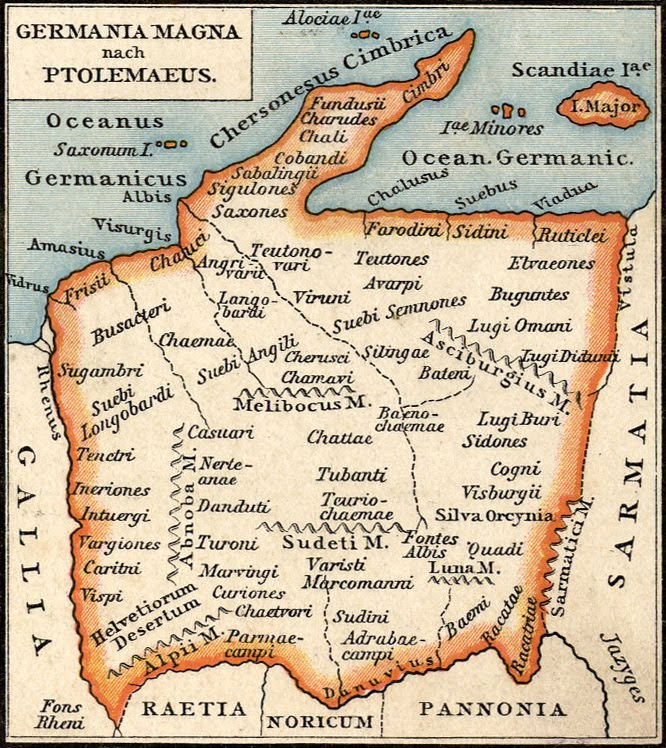 "Greater Germany in Ptolemy", a variant of Ptolemy's 4th European Map, depicting Roman-era Germany, Austria, Bohemia, and Denmark.